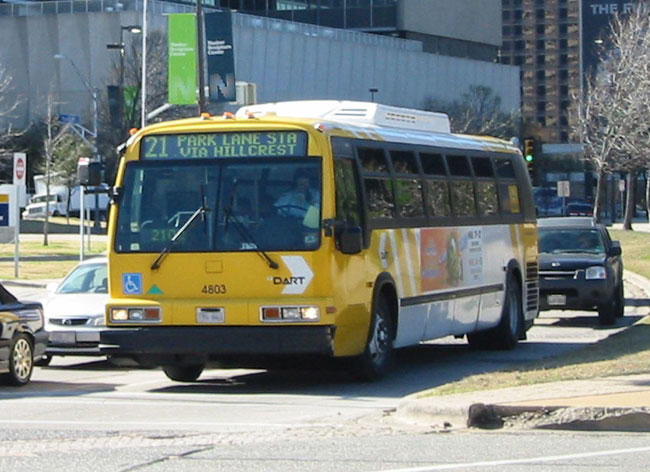 A DART Bus in downtown Dallas.